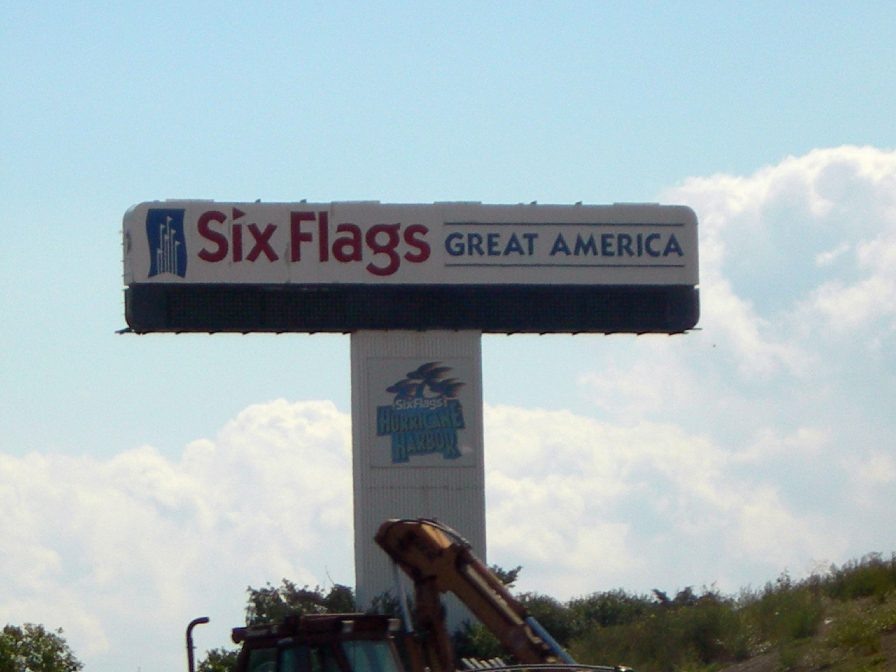 older sign (by 2006) at Six Flags Great America, Gurnee, Illinois